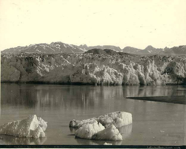 Caption on image: "Section of Muir Glacier, Alaska. Reflected." Subjects (LCTGM): Glaciers--Alaska Subjects (LCSH): Muir Glacier (Alaska)